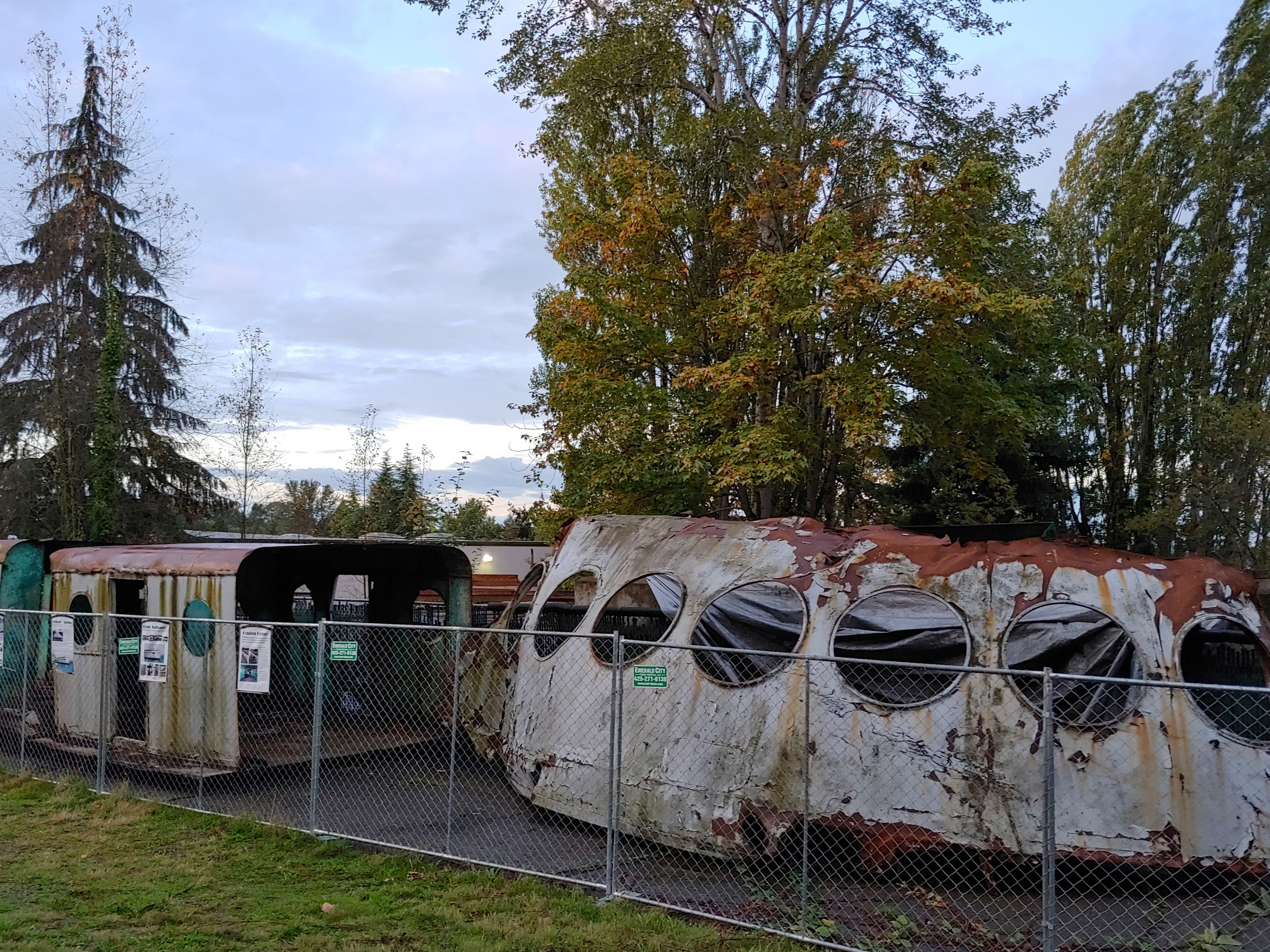 Parts of the ferry Kalakala stored in a City of Kirkland maintenance facility. The city plans to incorporate these in an artwork on the Cross Kirkland Corridor (trail). Kalakala was built at a Kirkland shipyard.